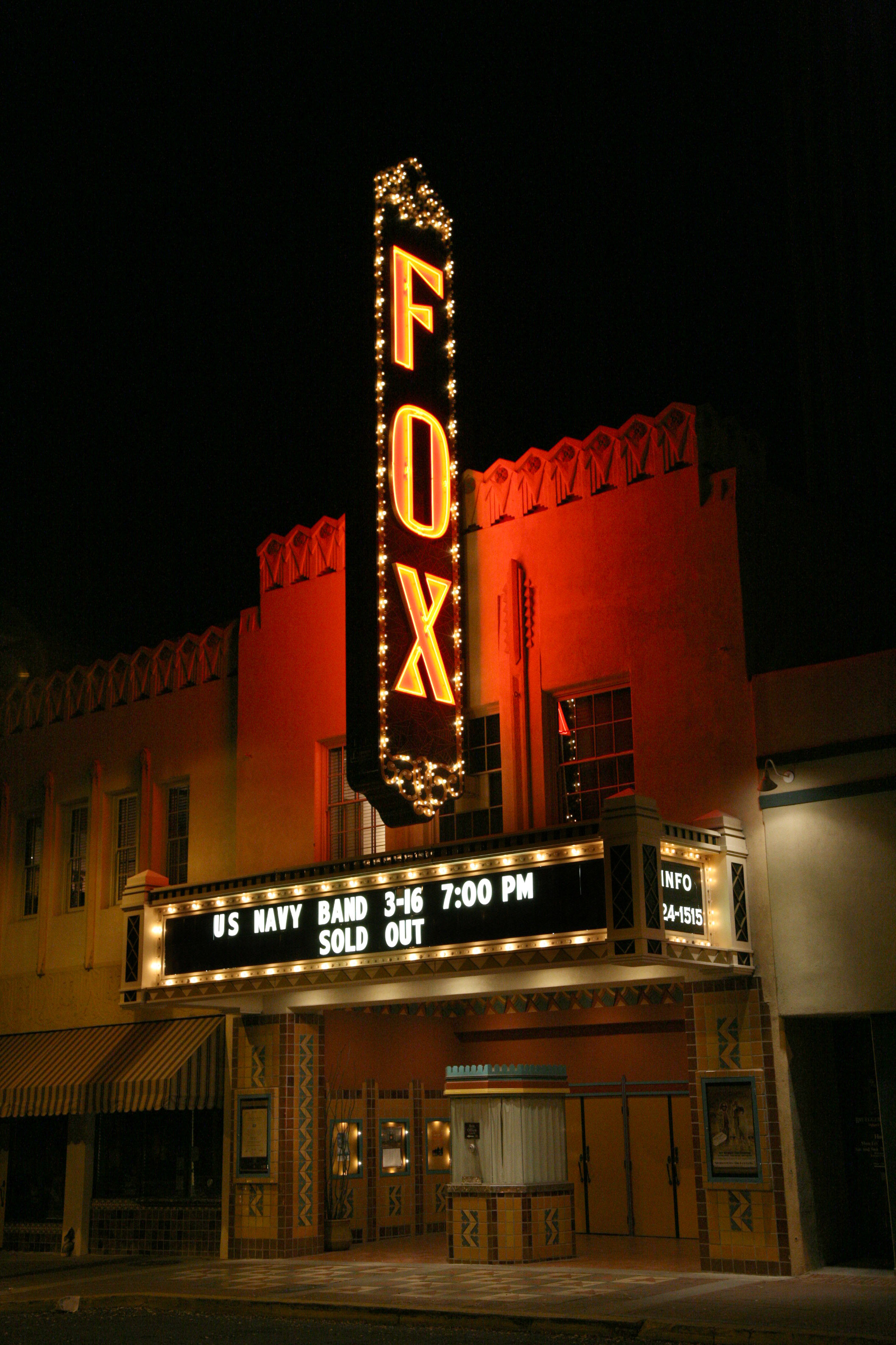 TUCSON, Ariz. (March 16, 2007) - The Destroyers, Navy Band Southwest’s top 40 rock group, perform at the Fox Tucson Theatre to a sold out crowd. Prior to the concert, Commander, U.S. Second Fleet, Vice Adm. Evan M. Chanik received a governor and mayoral proclamation for Tucson Navy Week. The week is one of 26 Navy Weeks planned across America in 2007. Navy Week is designed to show Americans the investment they have made in their Navy and increase awareness in cities that do not have a significant everyday Navy presence.